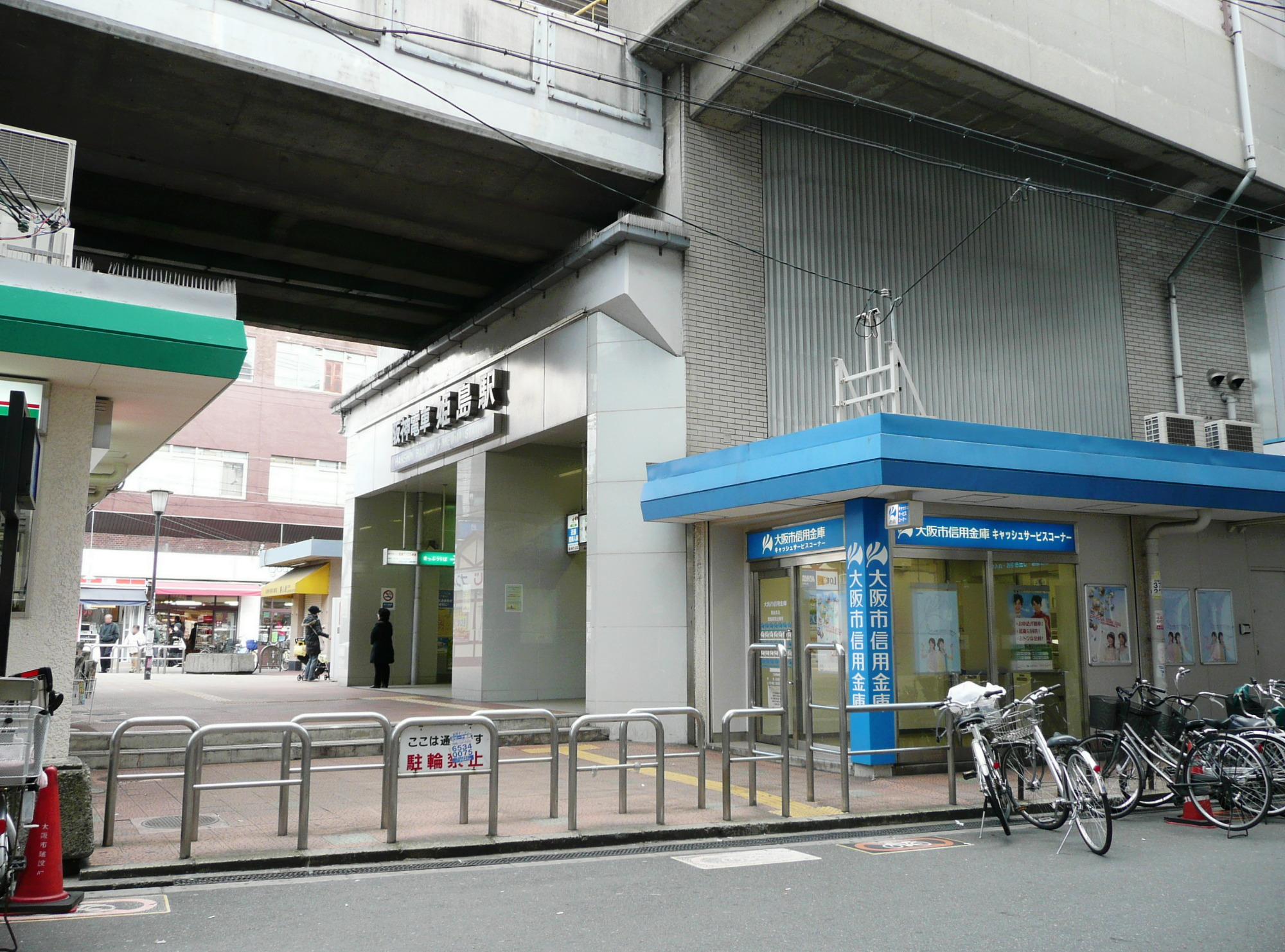 Hanshin Electric Railway,Main Line,Himejima Station west entrance.